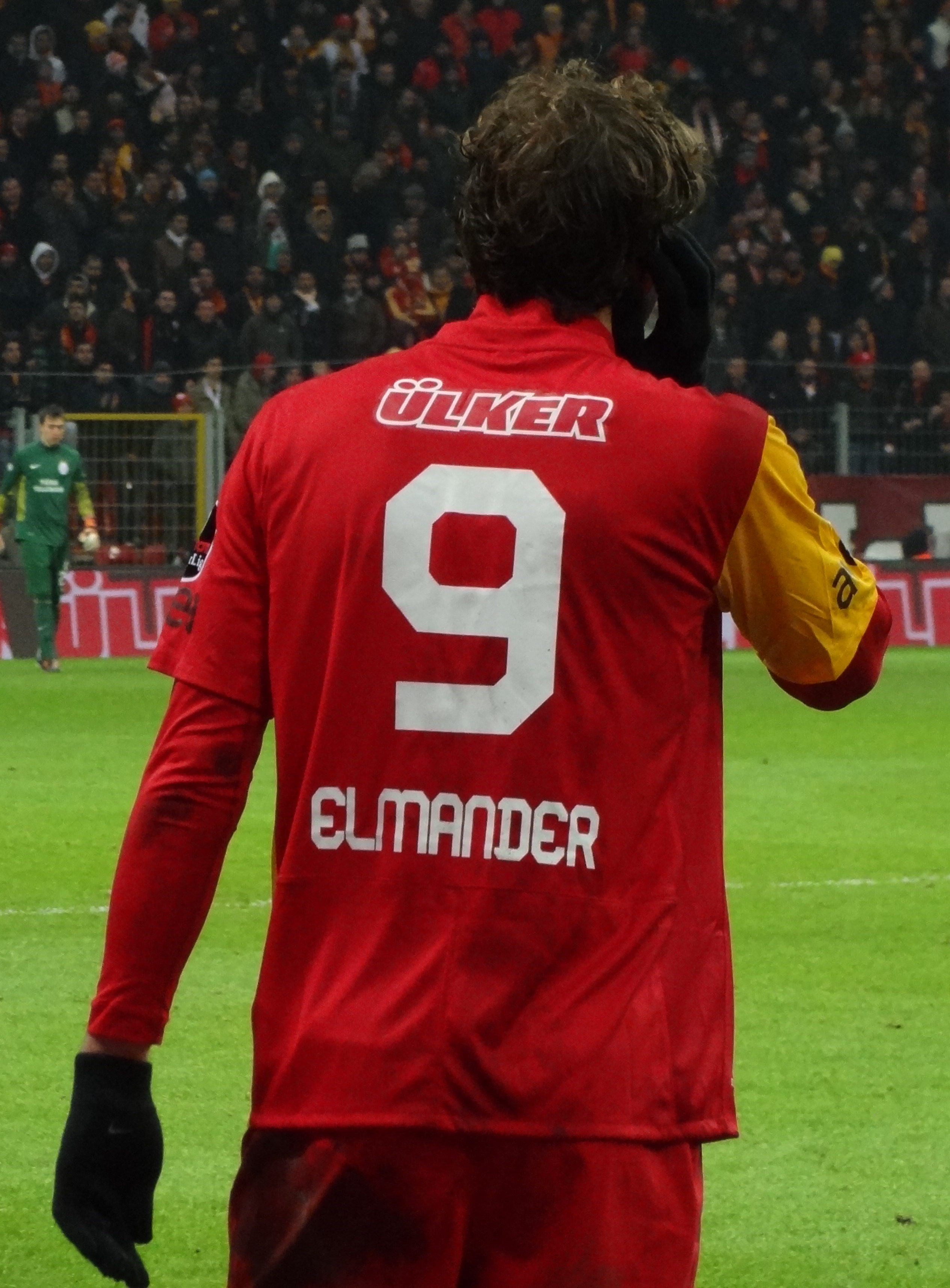 Elmander with kit 9